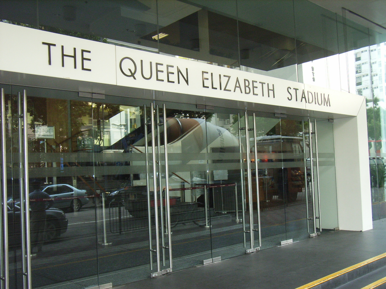 Around the Oi Kwan Road, Wan Chai, Hong Kong Author:Wenzi MHTI